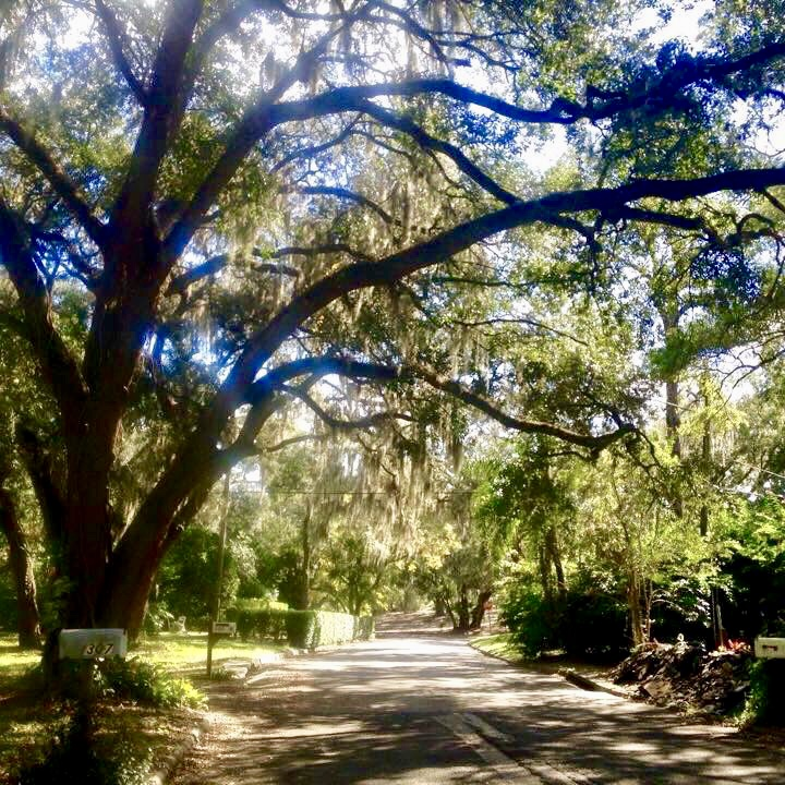 Glen Burnie Ave. looking south toward Glen Arven in Temple Terrace, FL